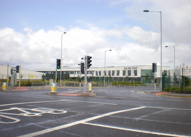 Tong High School. One Direction boy band member Zayn Malik attended school their before global fame hit